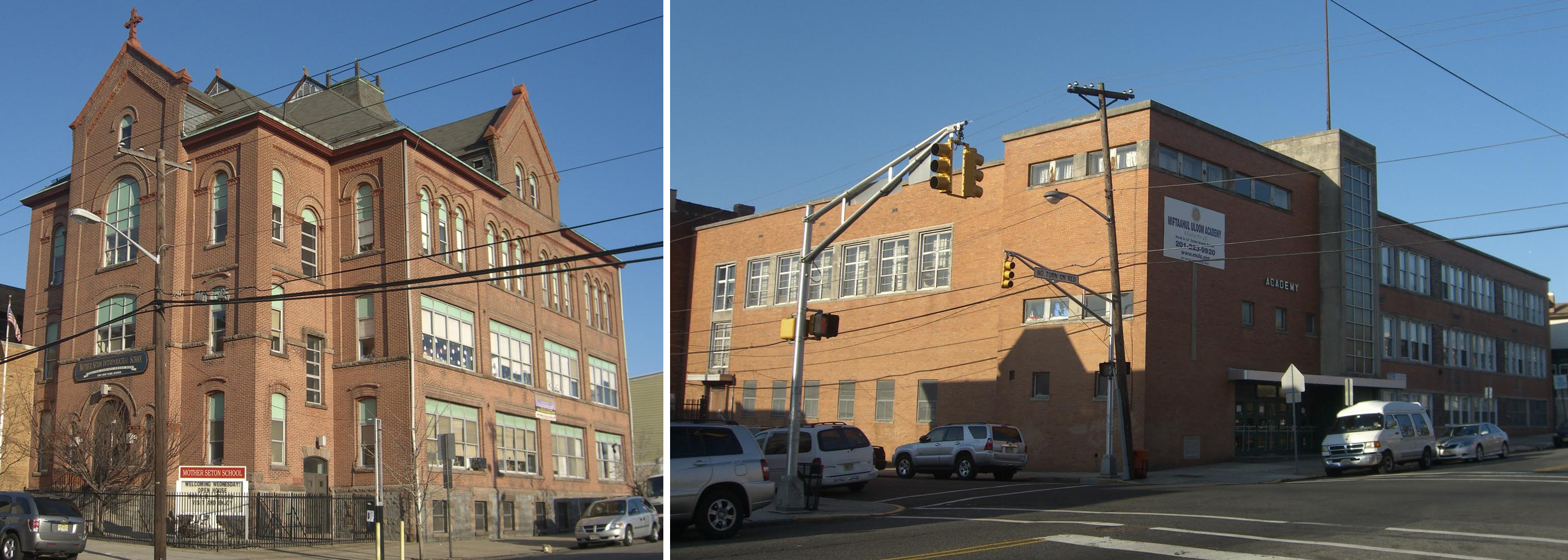 Mother Seton Interparochial School (left), and Miftaahul Uloom Academy, an Pre-K to 12th grade Islamic school (right), on 15th Street in Union City, New Jersey. Photo by Luigi Novi. This photo may be used for any purpose, provided that the photographer is visibly credited in each instance where it is used. For further information on the Licensing requirements (See Licensing information below), contact me at here.